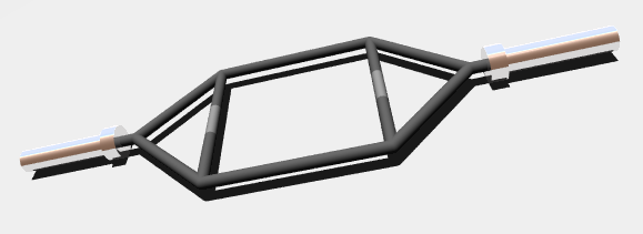 Trap bar